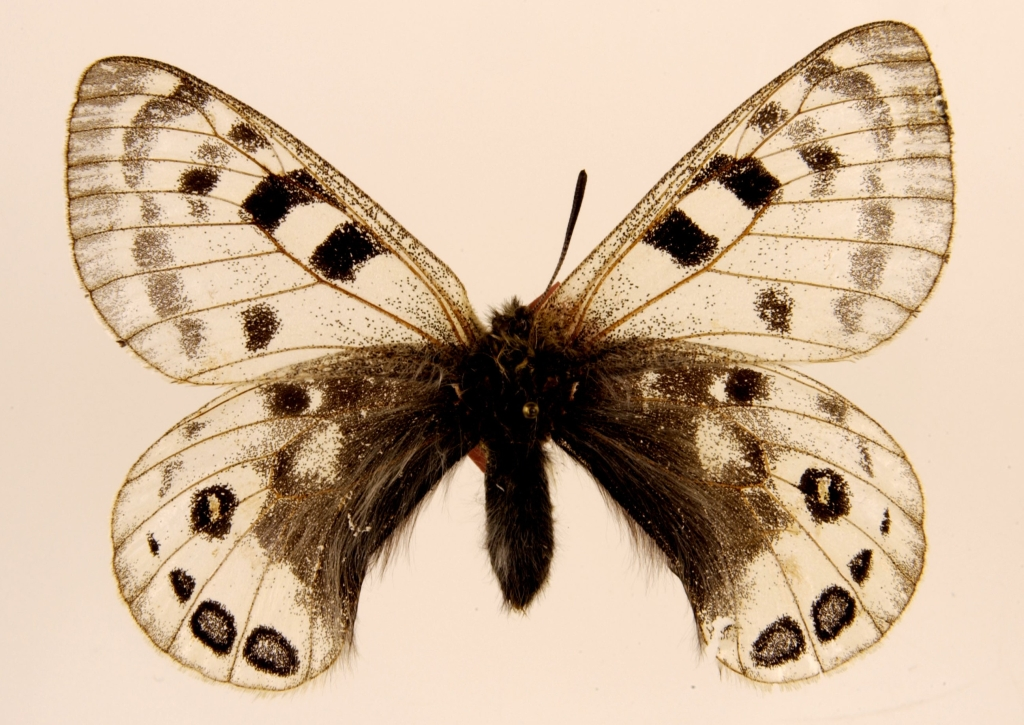 Parnassius cephalus sengei Syntype male, Co-type e collection O. Bang-Haas/China sept. occ., Pullow mont., Min-schan occ. 3,500m Juli/234/red disc/133/Type P.T./Mr 8383. Ulster Museum.